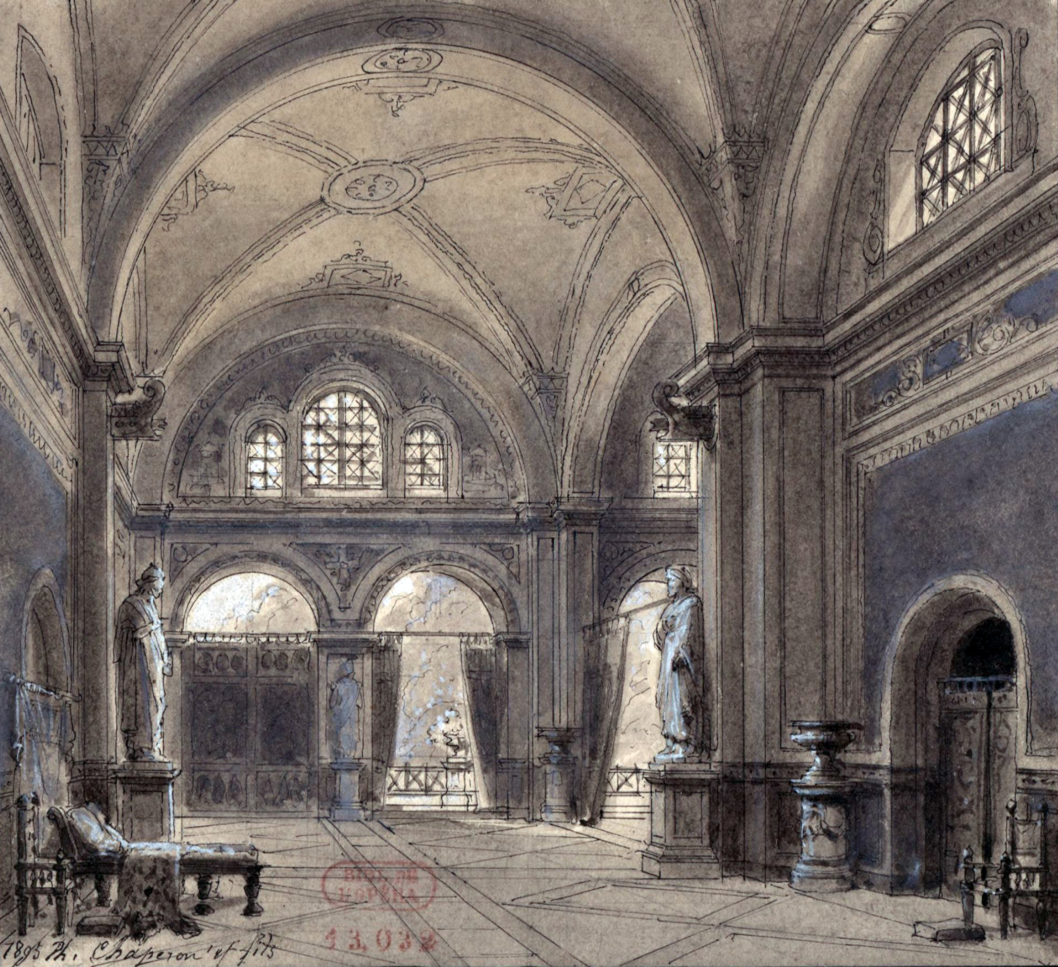 Set design for Act 1 of the opera Frédégonde, first performed on 18 December 1895 by the Paris Opera at the Palais Garnier in Paris